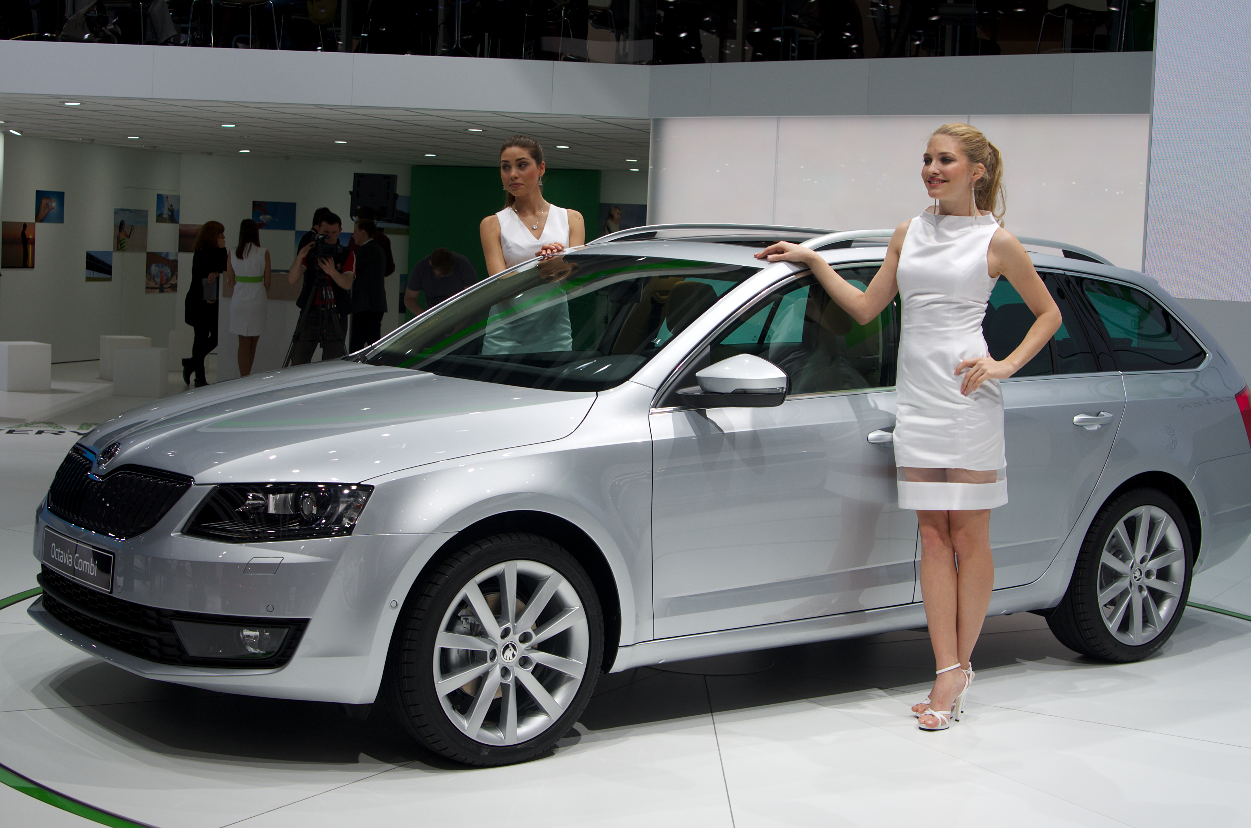 Geneva MotorShow 2013 - Skoda Octavia Combi grey